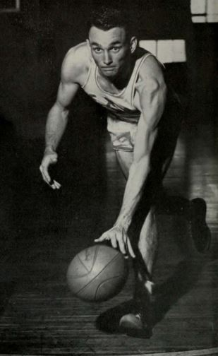 University of Texas basketball player John Hargis from the 1947 "Cactus" yearbook